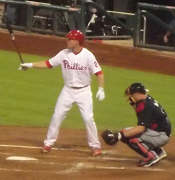 Cody Asche steps to plate in a game against the Atlanta Braves on September 7, 2013; catcher Brian McCann gives signs to the Braves' pitcher.